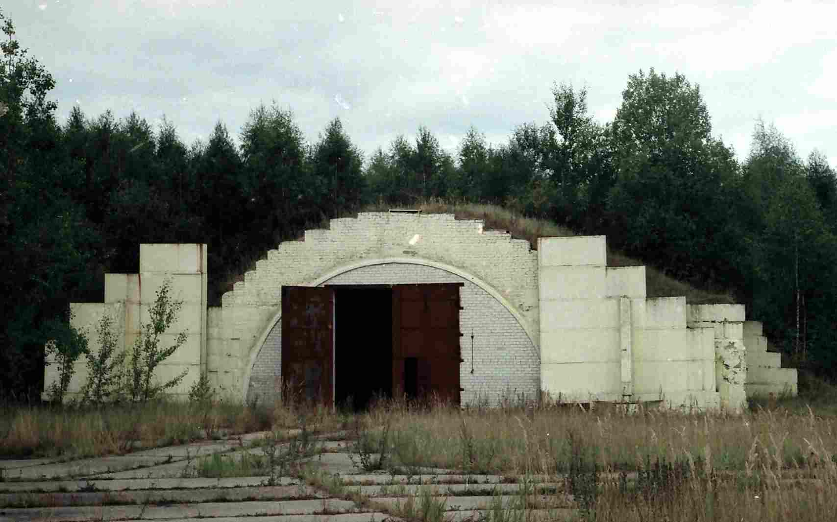 Hangar in the Zokniai military airport.